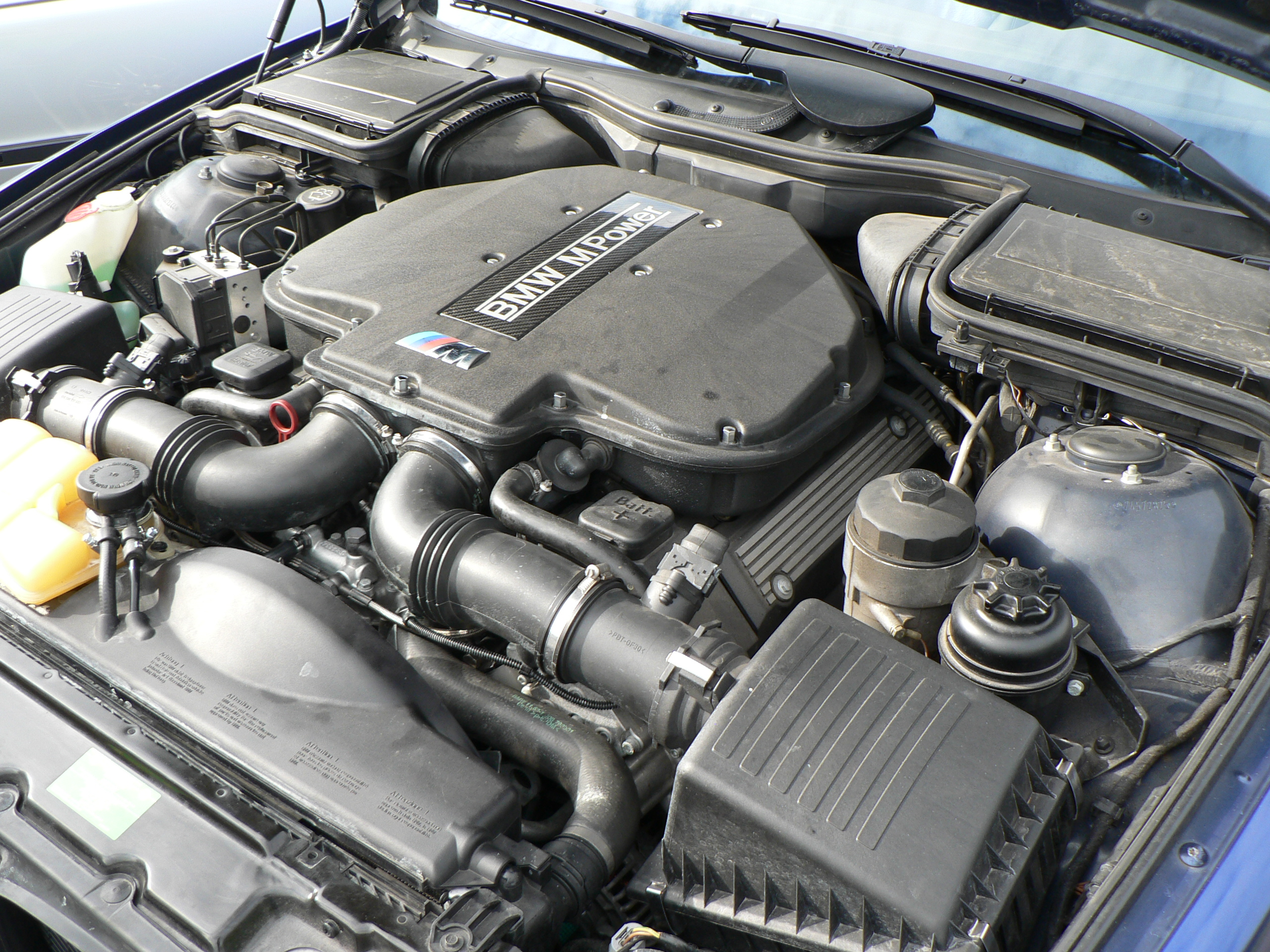 V8 engine of a BMW M5 E39